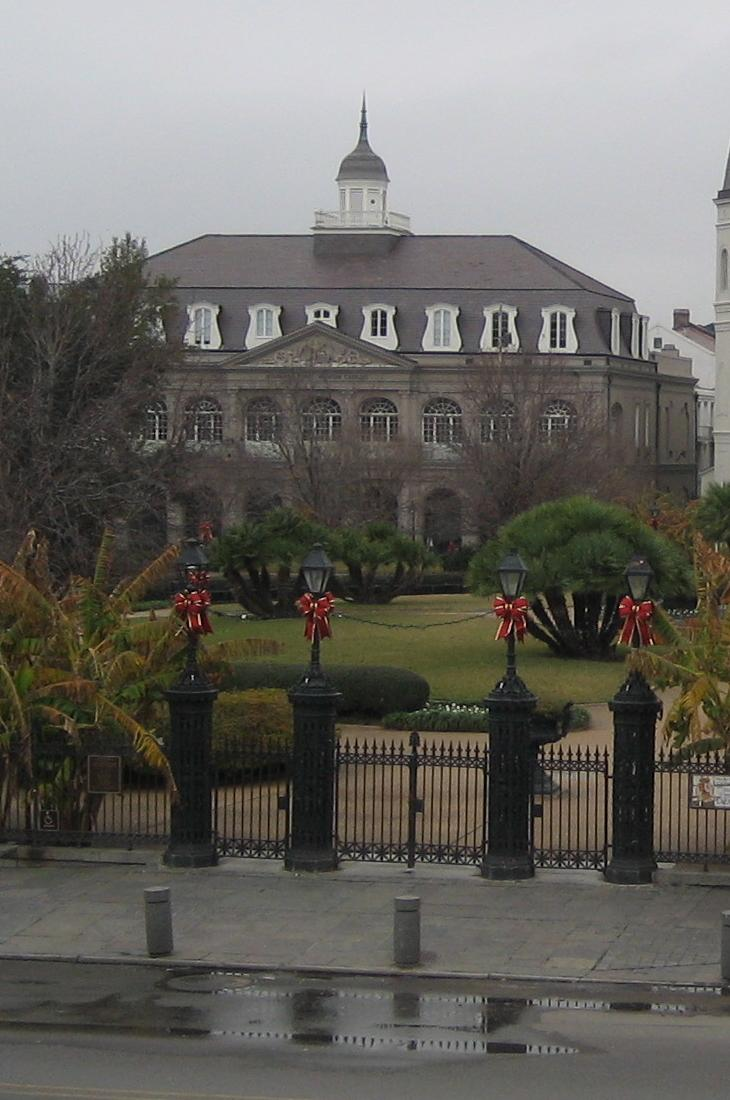 The Cabildo in the French Quarter, New Orleans, Louisiana: View of the Cabildo across Jackson Square from Decatur Street along the Mississippi River.